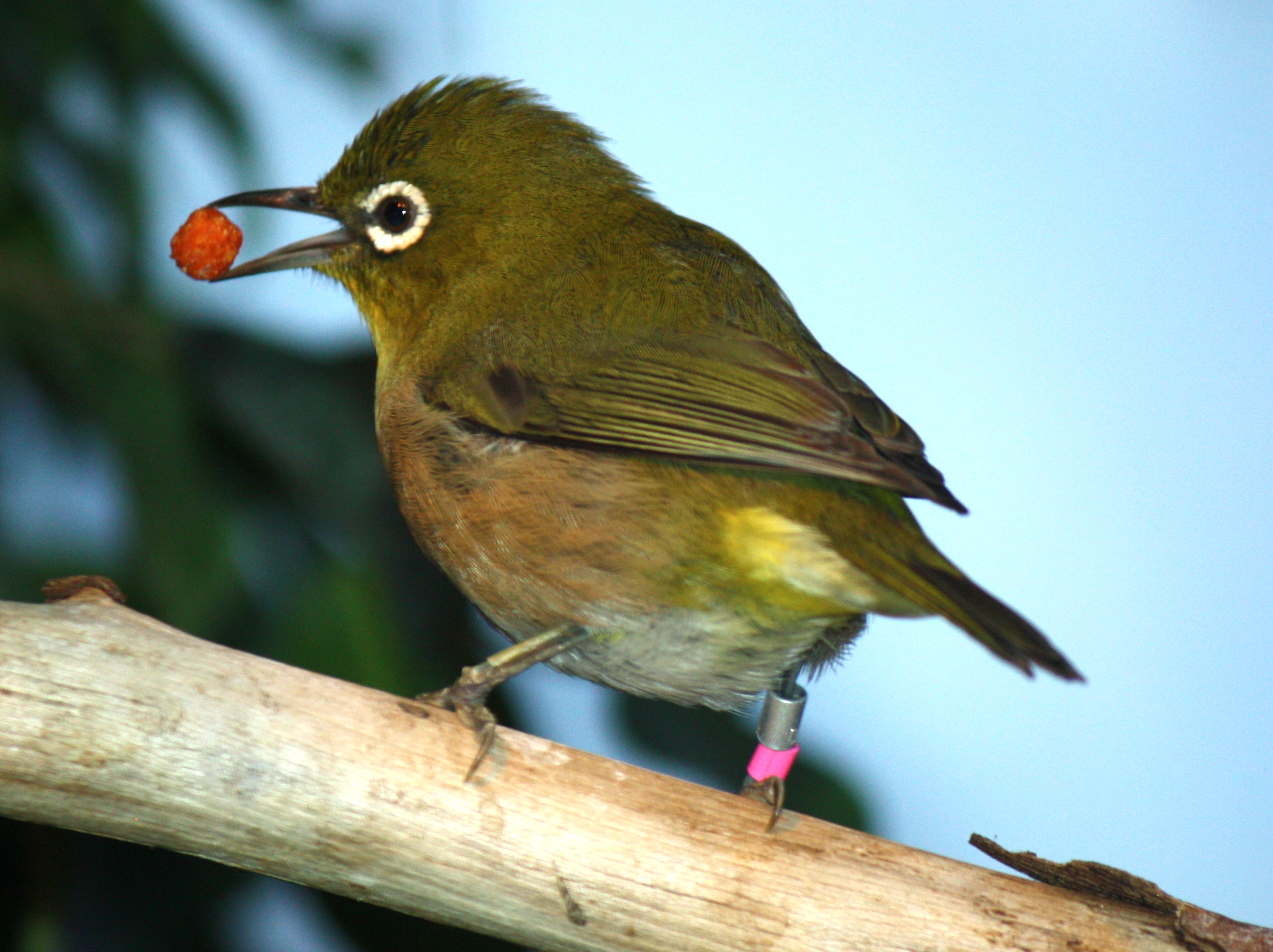 Japanese White Eye Zosterops japonicus at Louisville Zoo